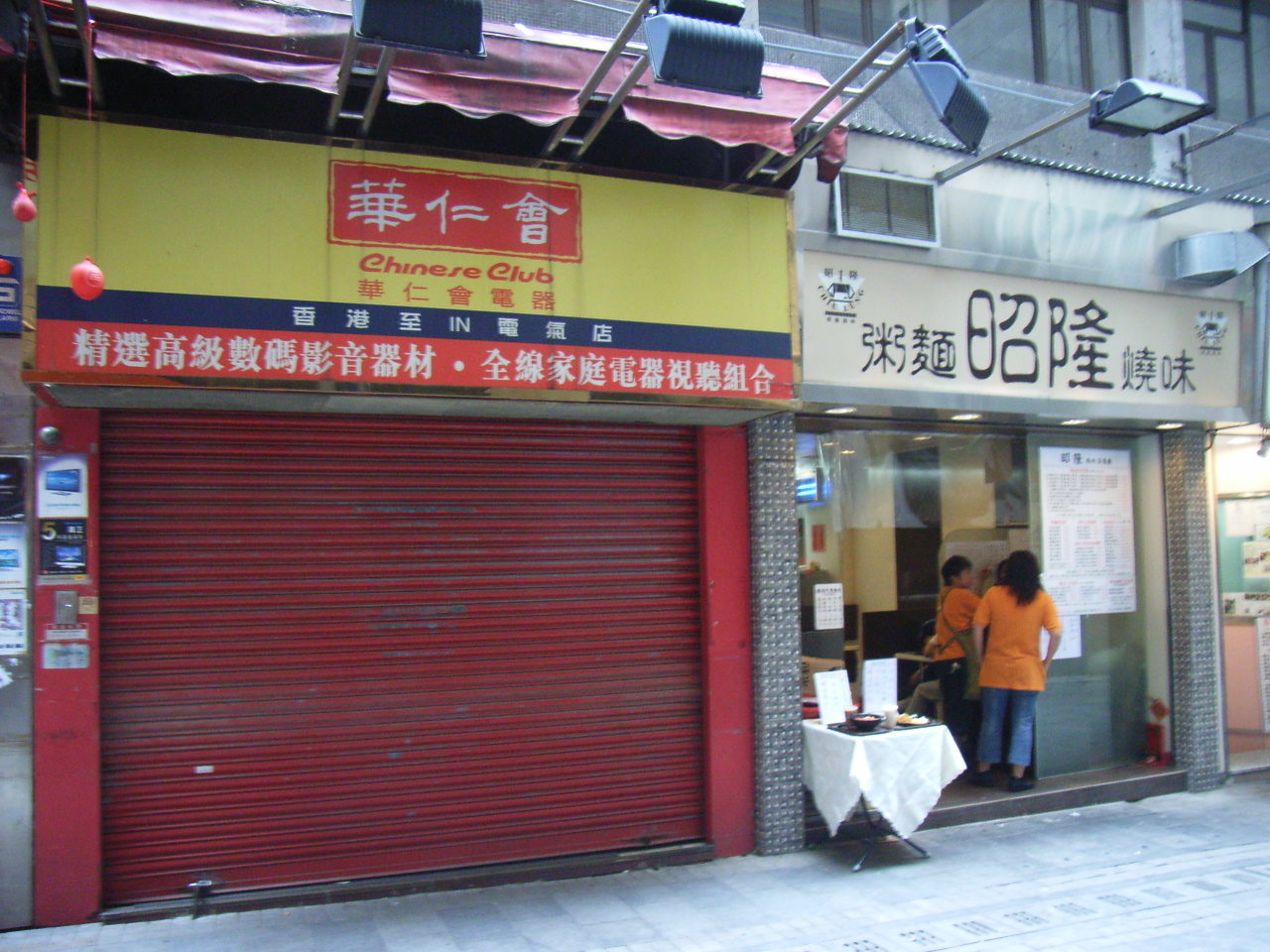 華仁會電器行 by User:See Ma Wa Lung - The Chinese Club, Chiu Lung Street, Central, Hong Kong